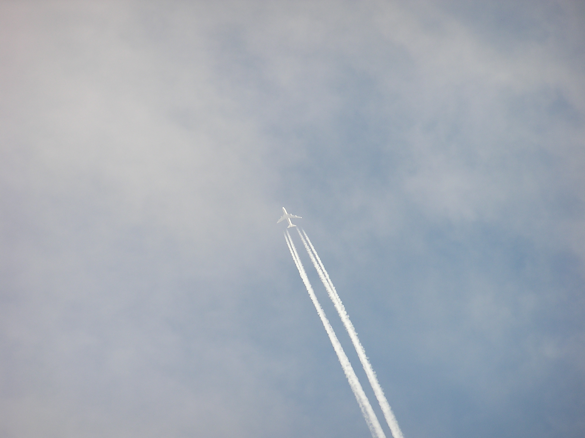 Aeroplane in the Dutch sky